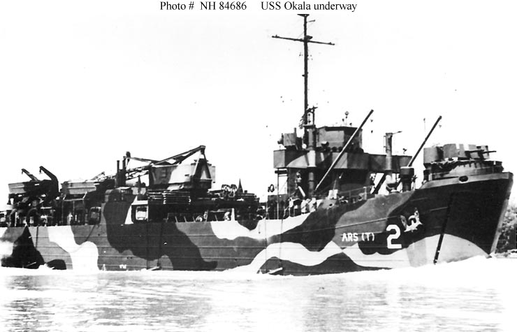 USS Okala (ARST-2) underway, circa mid-1945. This is US Navy photo # NH 84686